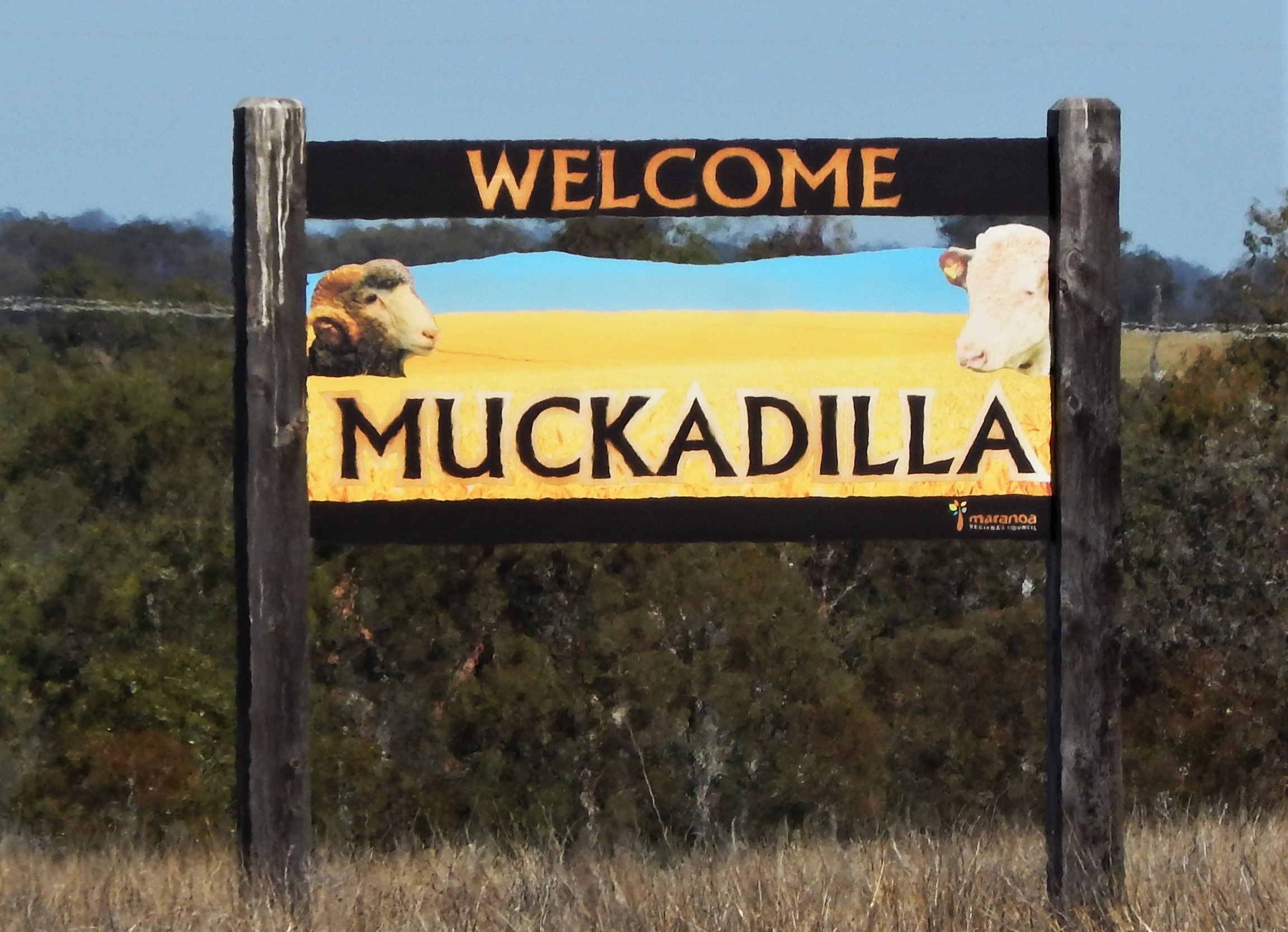 The Welcome to Muckadilla sign located at the eastern entrance to the township of Muckadilla, Queensland